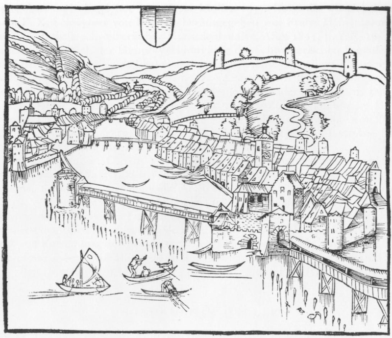 Wood engraving, first View of Lucerne (Switzerland), 1507. The original print was laterally reversed